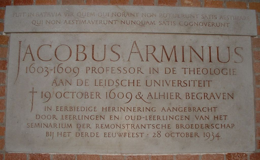 memorial stone for jacobus Arminius at the Pieterskerk Leiden (NL)